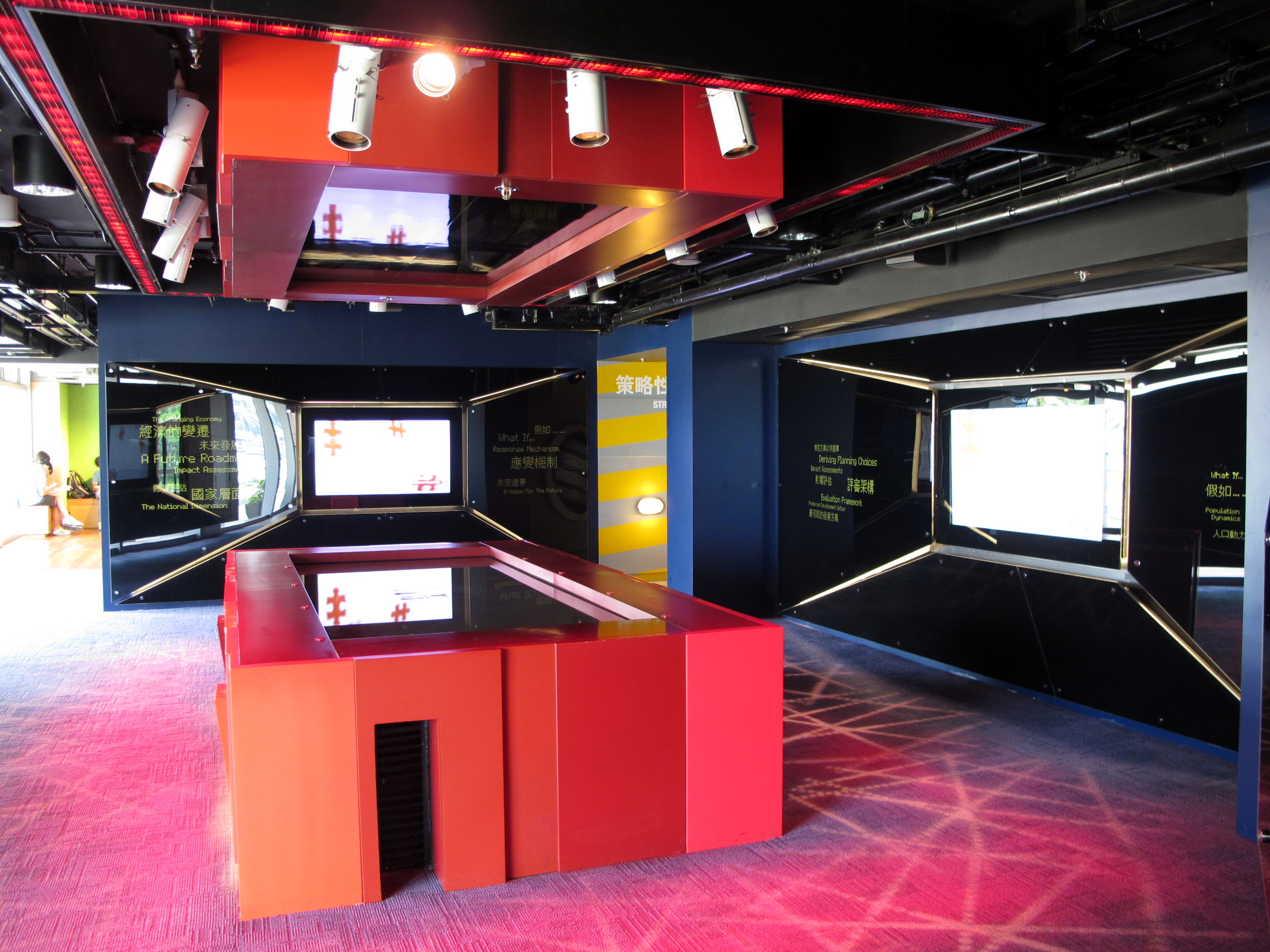 City Gallery The Strategic Picture 展城館